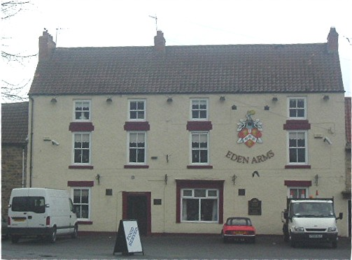 Eden Arms where the West Auckland FC's 'World Cup' once rested. West Auckland FC won the Sir Thomas Lipton Trophy in Italy twice consecutively (1909.1911) and thus got to keep it. The Eden Arms was its first resting place. The building is listed